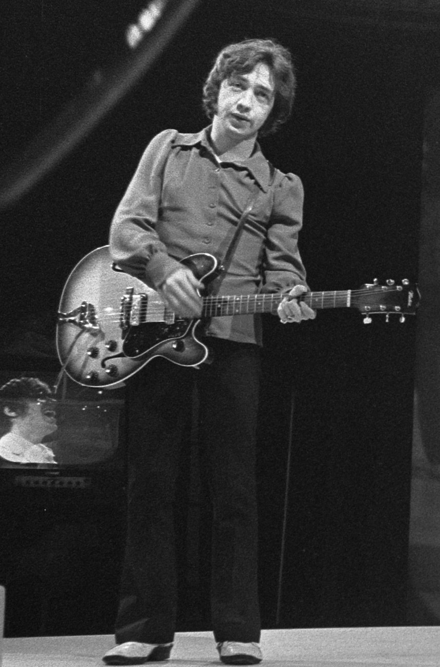 George Young (VARA TV, The Netherlands), 13 August 1968